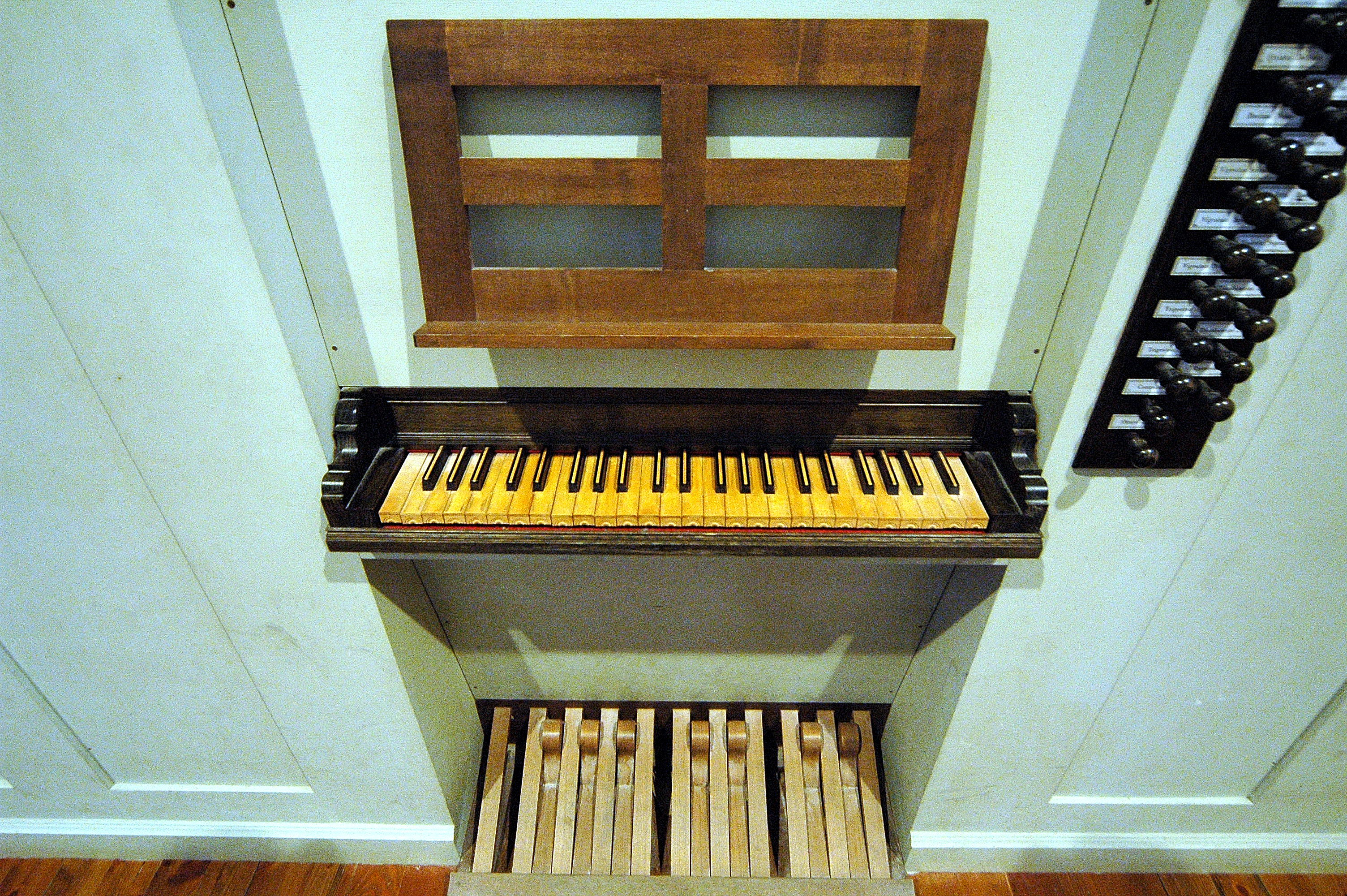 Manual and pedal of church-organ in San Pietro al Natisone, Friuli, Italy